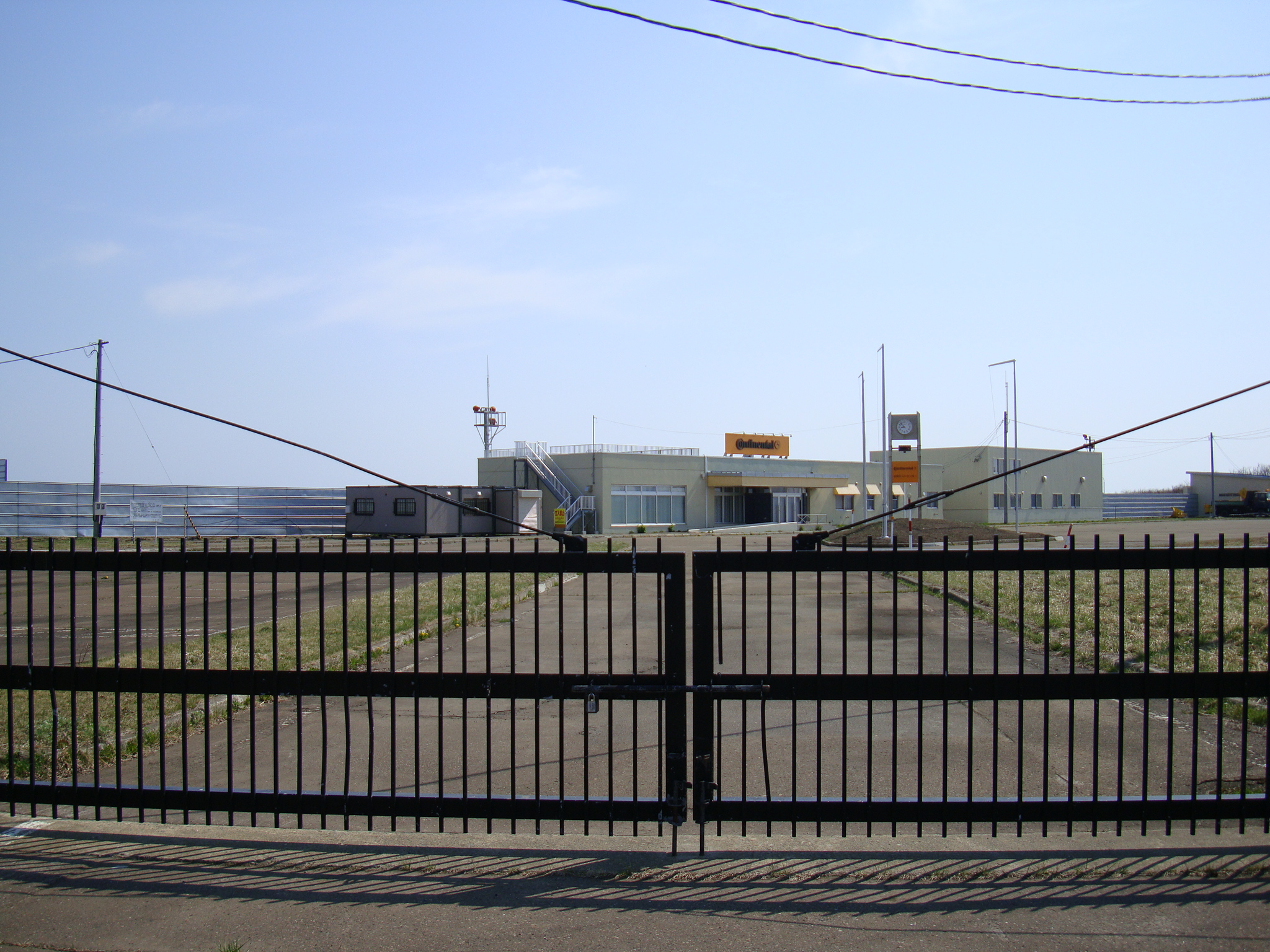 Monbetsu Airport( - 1999.11.10). Now Continental Automotive Systems, Monbetsu test cource.